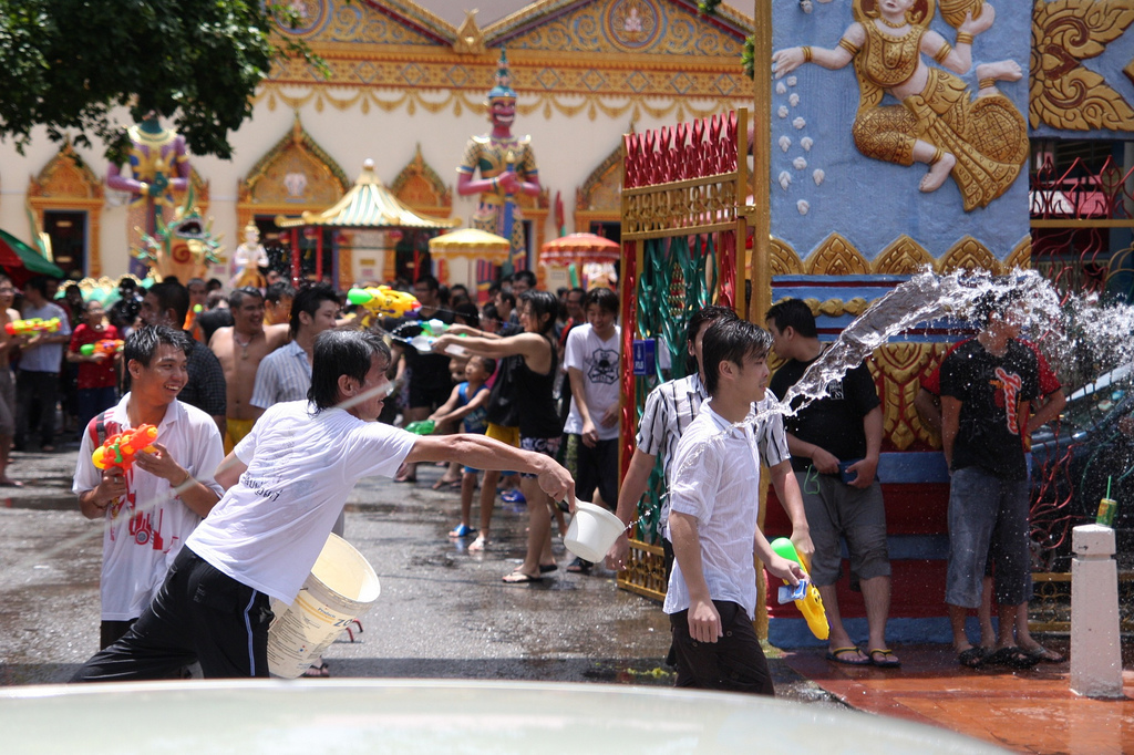 The Songkran festival as celebrated in a Thai Buddhist Temple, Penang, Malaysia